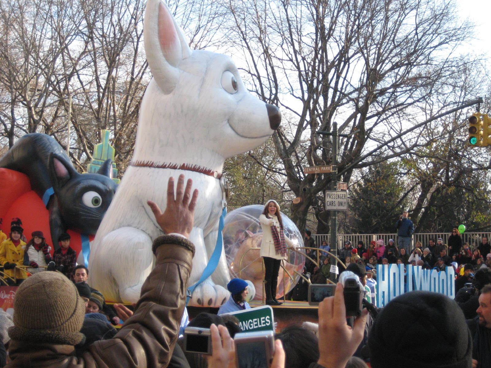 A teen in a parade.